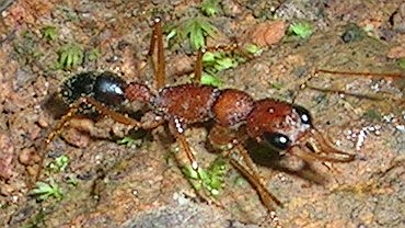 Jerdon's Jumping Ant. Harpegnathos saltator Photograph by L. Shyamal, Wynaad 2006